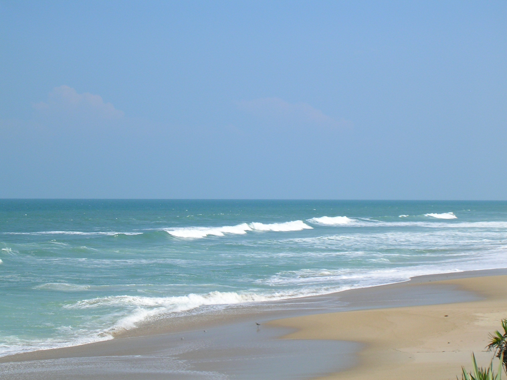 A picture taken of Playalinda beach.